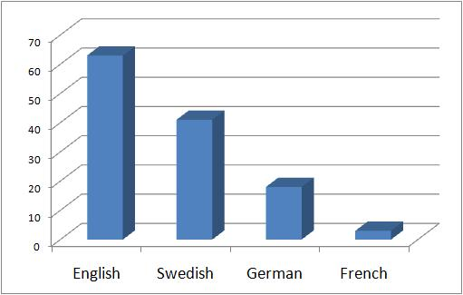 Knowledge of official EU languages, excluding English, (including Swedish as a second language) in Finland, in per cent of the adult population (+15), 2005. Data taken from an EU survey. ebs_243_en.pdf (europa.eu)